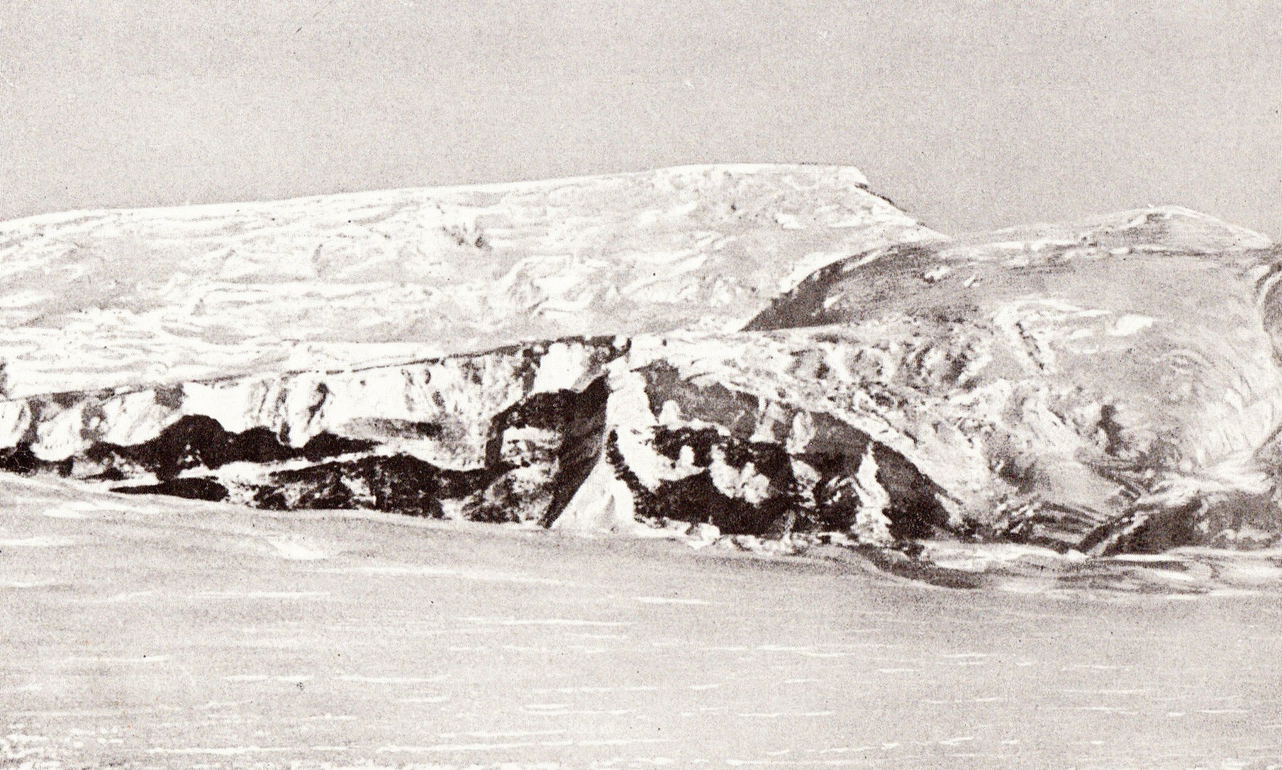 Mount Fridtjof Nansen, in the Victoria Range of the Transantarctic Mountains, photographed by Roald Amundsen in 1911